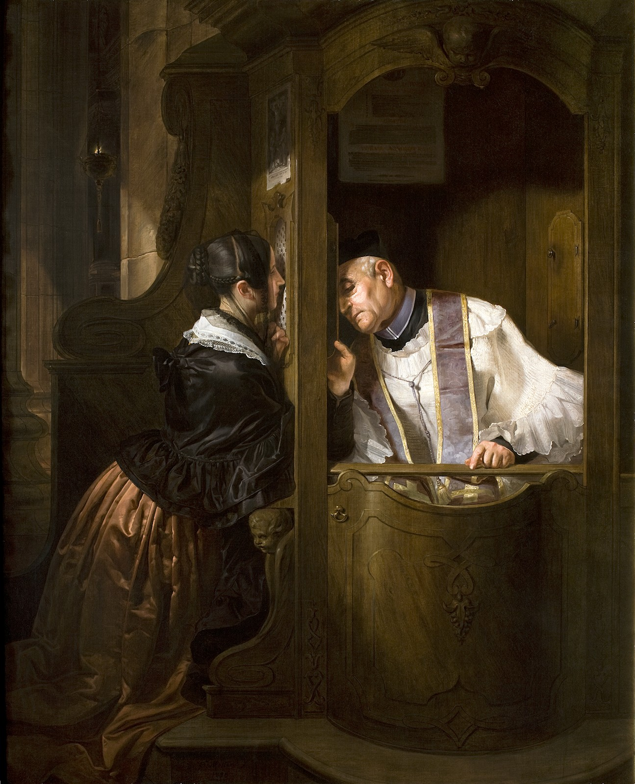 Bought and sold repeatedly on the antique market in the second half of the 1980s, this painting came into the Cariplo Collection in its original neo-baroque frame from a private collection in 1998. The history of its ownership began in 1838, when it was purchased by Ferdinand I of Austria for the Belvedere in Vienna. As a result of the financial problems besetting the Habsburgs, it was then decided to sell the work together with other Italian paintings from the collection, which were auctioned at the Galleria Scopinich, Milan, in 1928. It was exhibited at the Esposizione Nazionale di Belle Arti di Brera in 1838 and proved a great success with the public and critics alike – further enhanced by its acquisition for the imperial collections – as a result of the subject, drawn directly from contemporary life and portrayed in the large format previously reserved for history painting. The iconographic and compositional model of the work can perhaps be traced to The Confession (1712, Dresden, Staatliche Kunstsammlungen) by the Bolognese painter Giuseppe Maria Crespi (1665–1747), which portrays the sacrament of confession as a familiar part of everyday life. The sweet yet pert woman kneeling in the confessional was thought by some contemporary critics to represent a young mother who had yielded to the advances of an admirer. Meticulously captured in all the details of furnishing and dress, the contemporary scene was instead seen by the Catholic critic Pietro Estense Selvatico as designed to illustrate the moral beauty of everyday life. Already sought after as a fashionable portrait painter in the 1830s, Giuseppe Molteni thus developed a type of genre painting then in great demand on the market, depicting aspects of society and day-to-day life in a variety of styles ranging from folksy and anecdotal to dramatic in subjects of social satire.